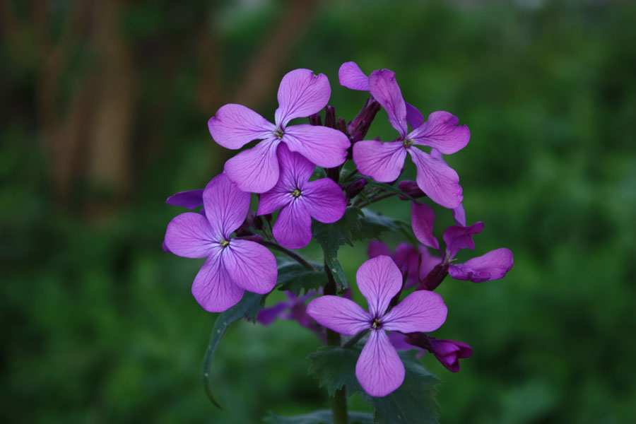 Miesiącznica roczna (Lunaria annua)